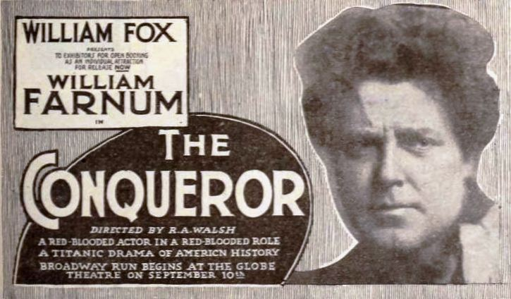 Advertisement for the American drama film The Conqueror (1917) with William Farnum, on page 7 of the October 6, 1917 Exhibitors Herald.